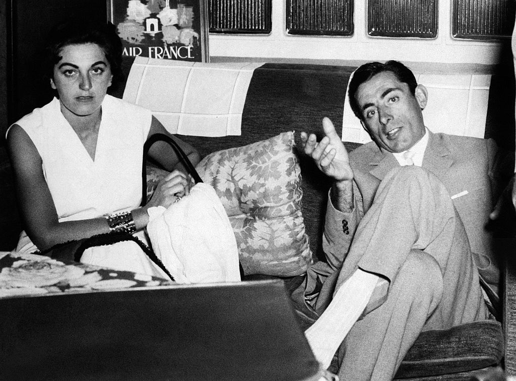 Giulia Occhini (known as Dama Bianca) and Italian racing cyclist Fausto Coppi sitting on a sofa. Turin, 16th July 1954.